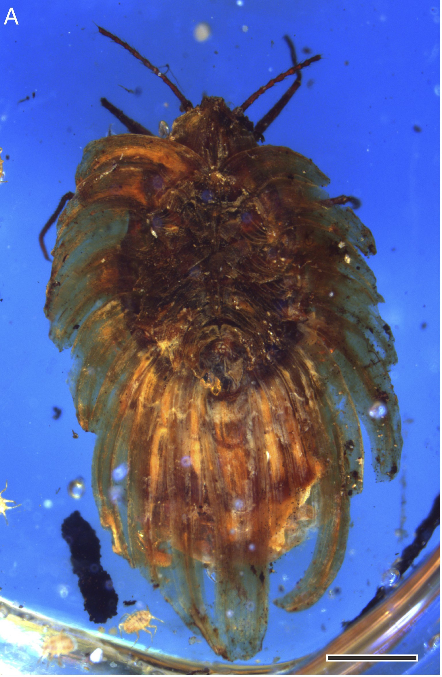 Wathondara kotejai from mid-Cretaceous Burmese amber. (A) Habitus in dorsal view, stacked image with a blue filter. Scale bar 1 mm